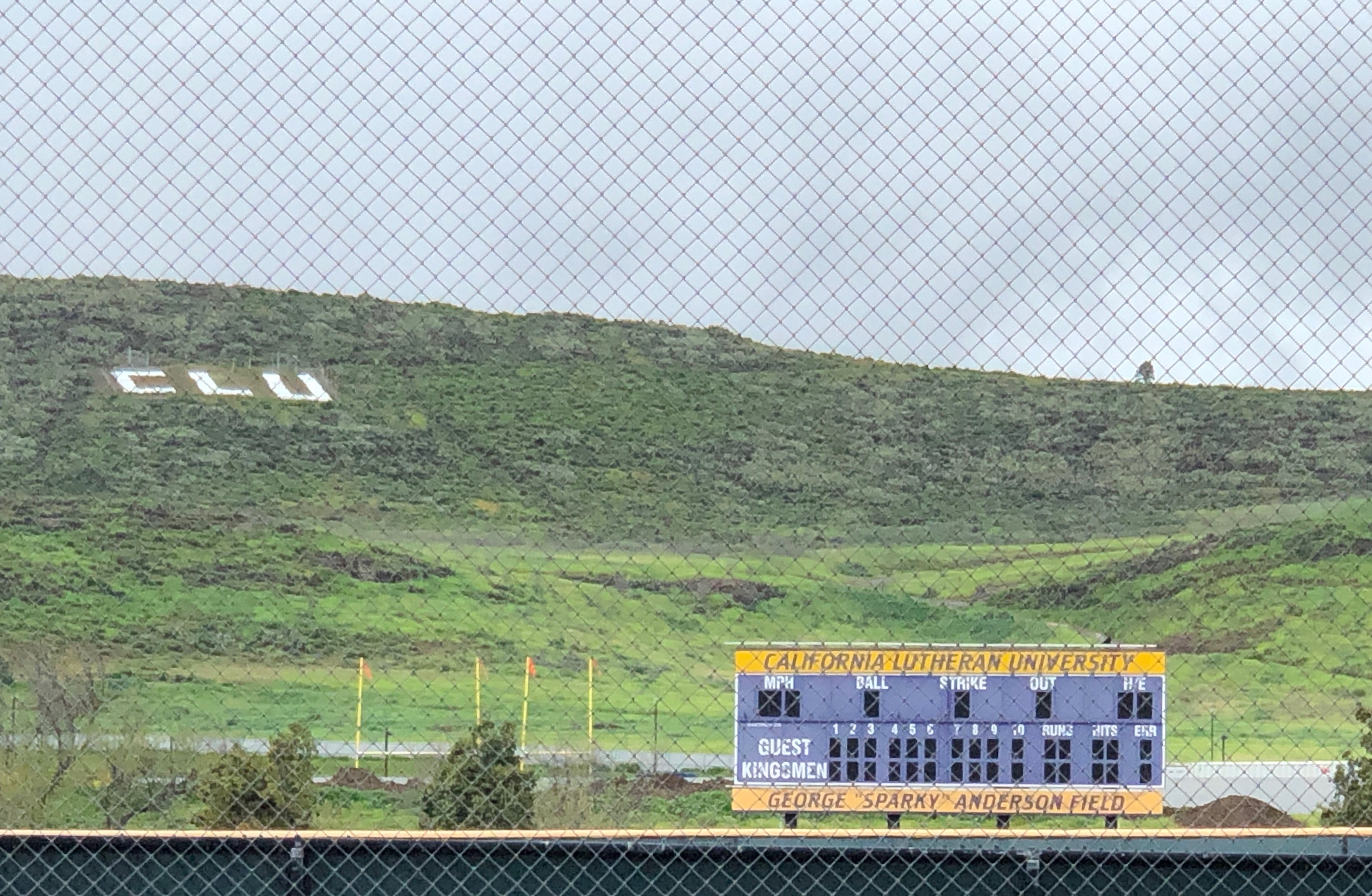 George Sparky Anderson Field at California Lutheran University (CLU), in Thousand Oaks, CA.